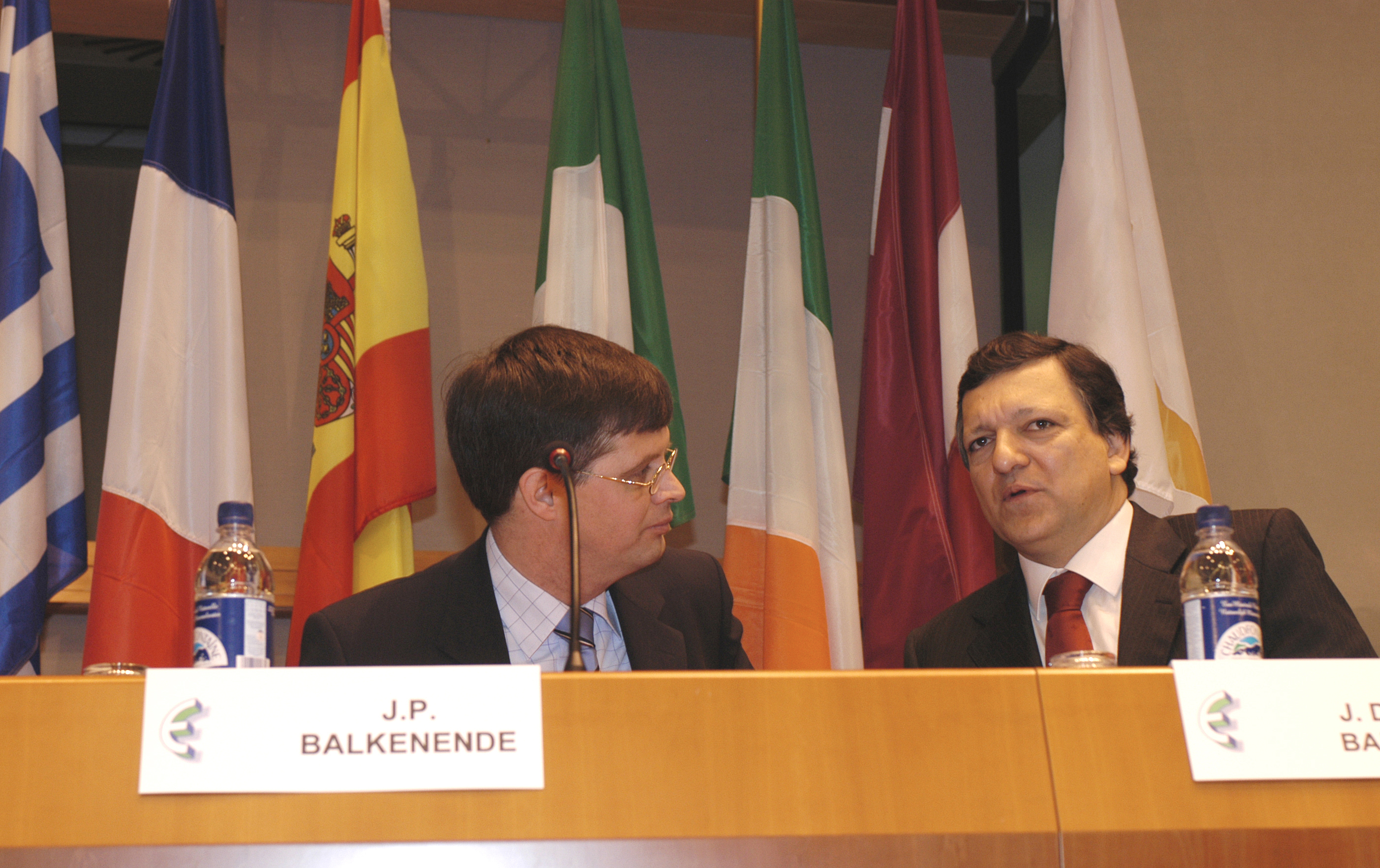 EPP Congress Brussels 4-5 February 2004